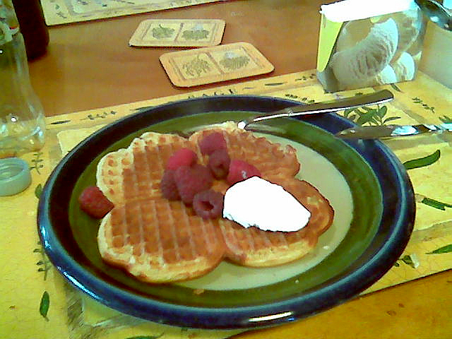 waffle with icecream and raspberries